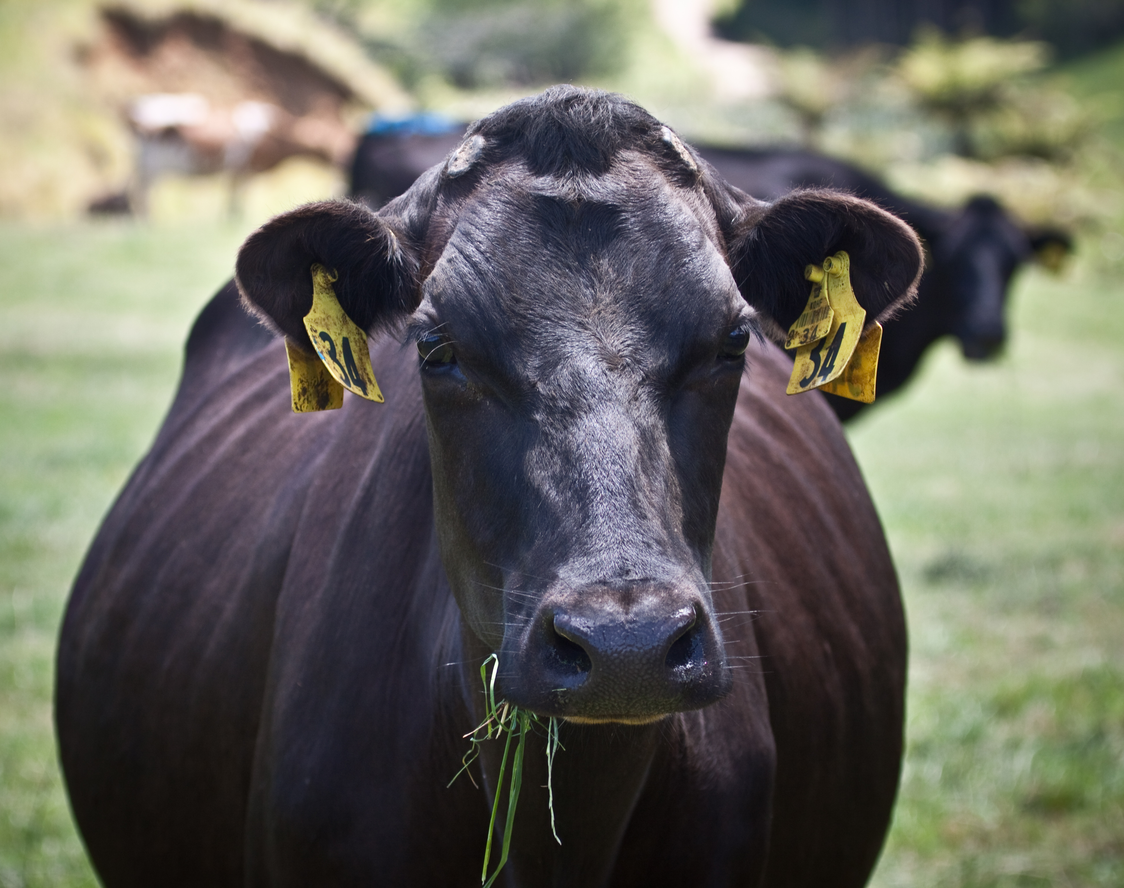 A dehorned dairy cow in New Zealand